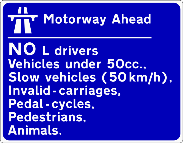 "Motorway ahead sign in Ireland..."